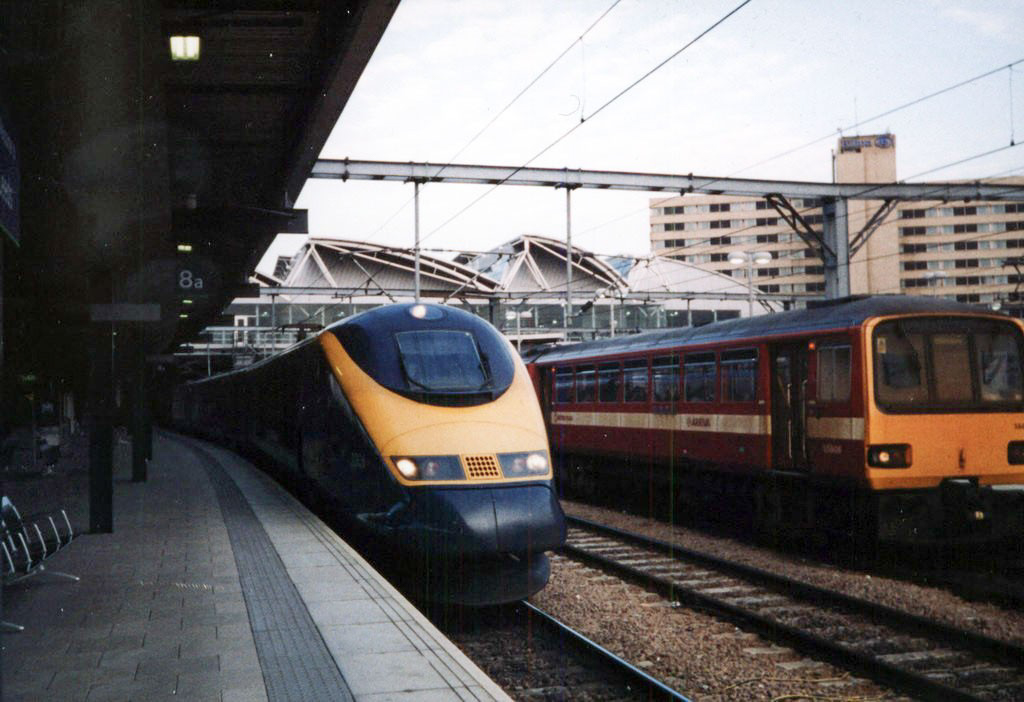 Eurostar set at Leeds (no. 3306)